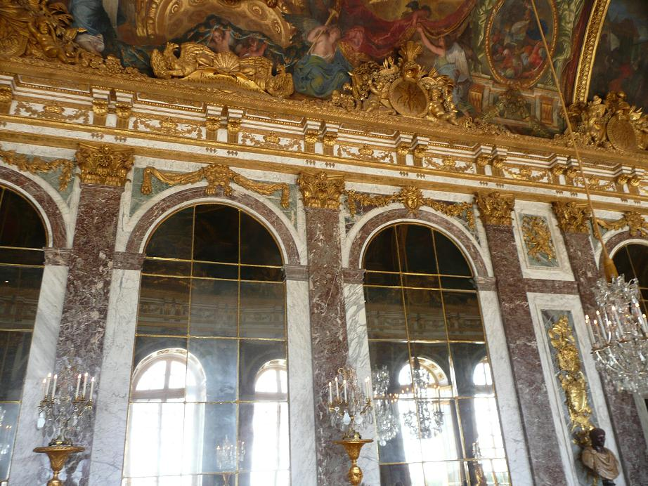 Hall of Mirrors, Versailles